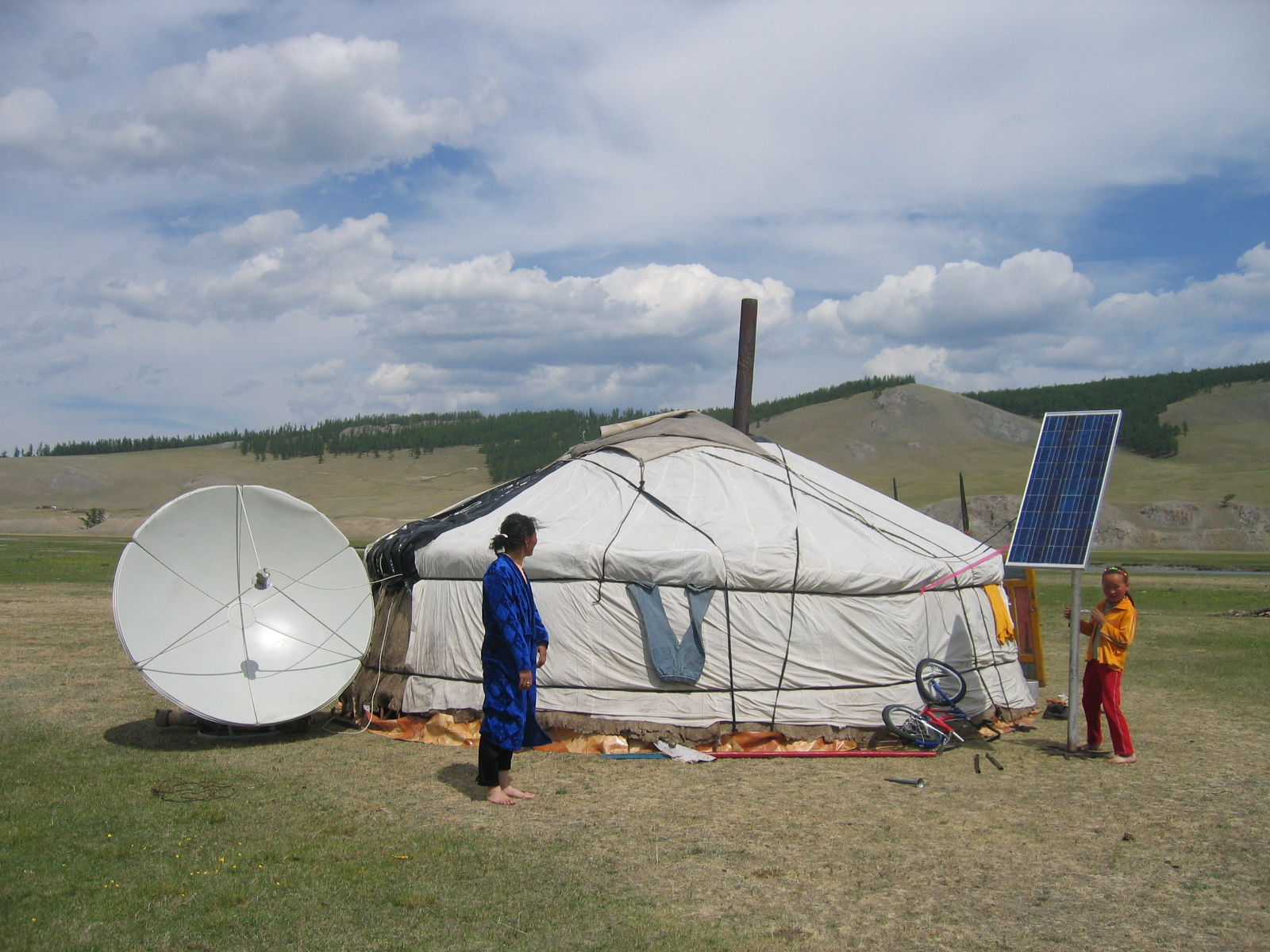 A yurt with a satellite dish and a solar panel